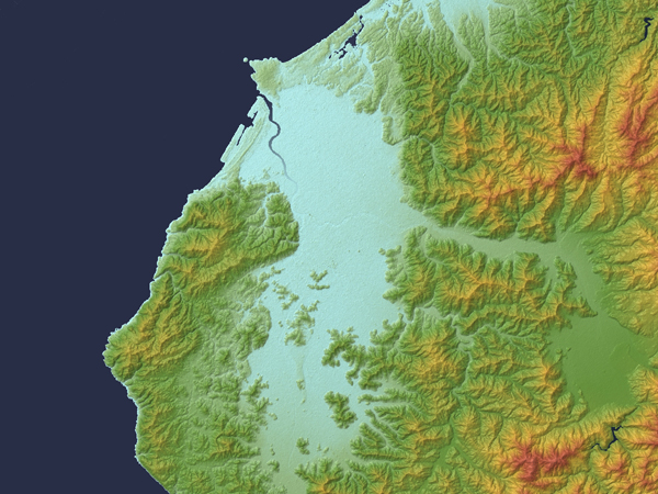 Fukui Plain in Fukui Prefecture, Honshu, Japan.